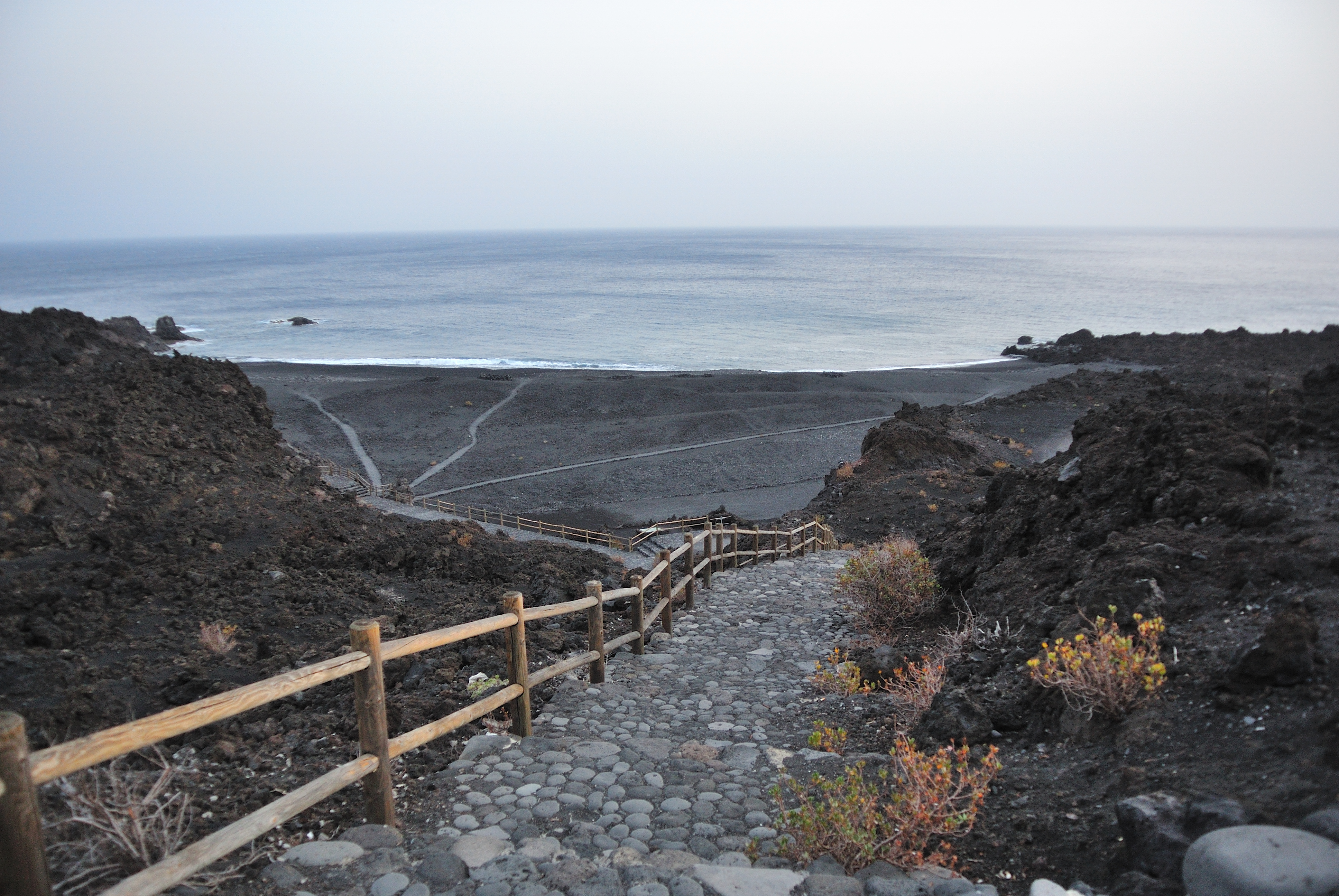 Playa Nueva in the evening, La Palma near Fuencaliente, Canary Islands 2015